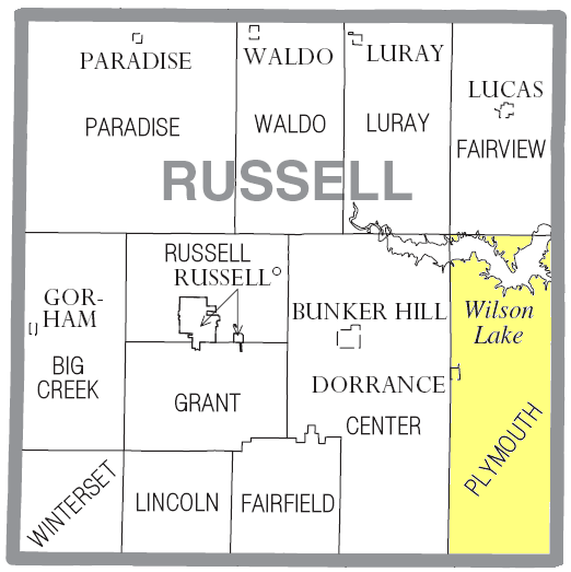 Map of Russell County, Kansas highlighting Plymouth Township